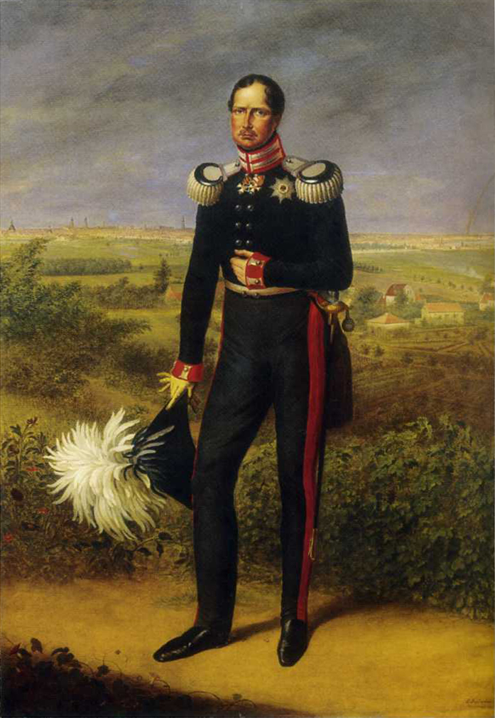 Friedrich Wilhelm III (1770-1840)